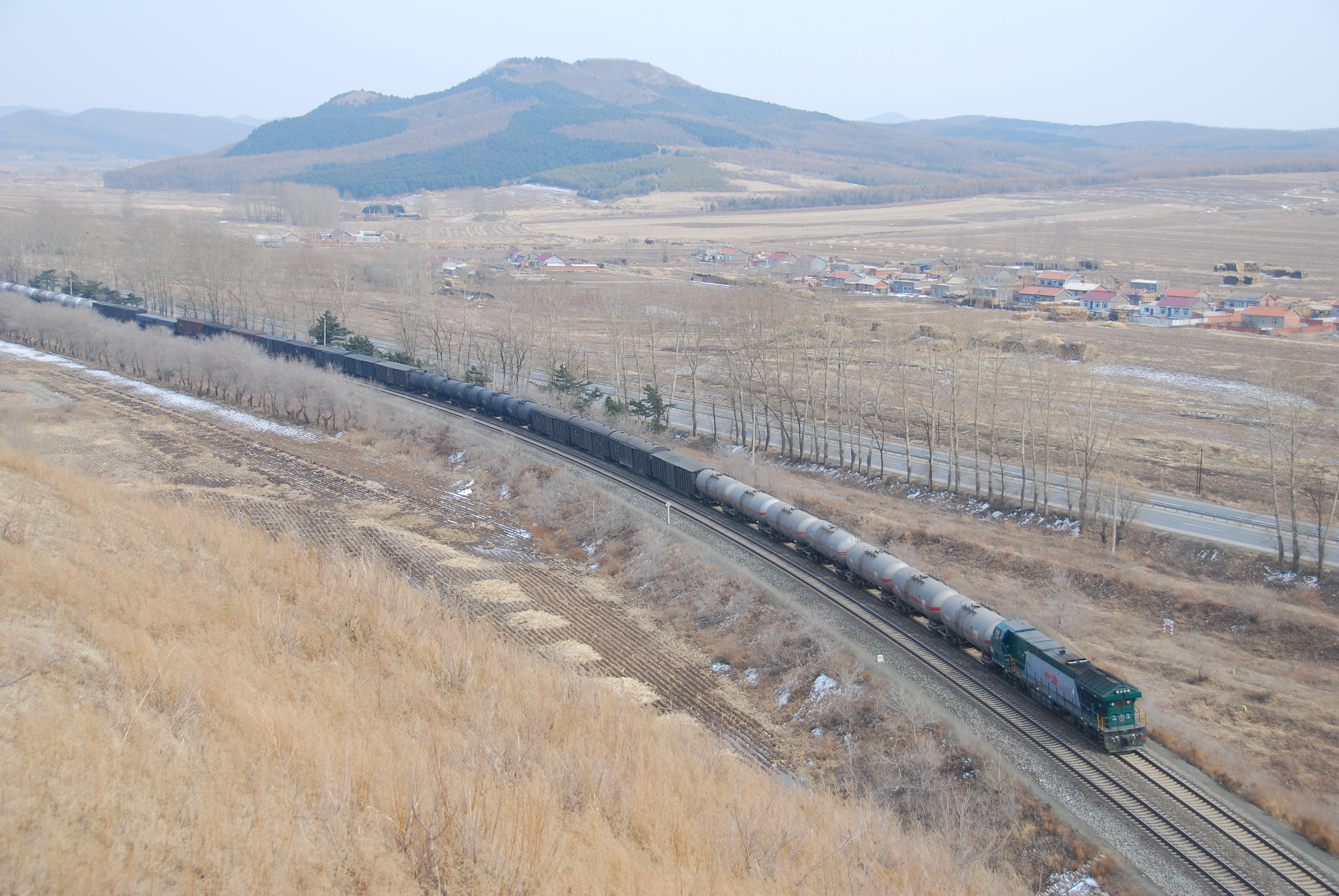 大山嘴隧道上行火车 Train cross Dashanzui tunel